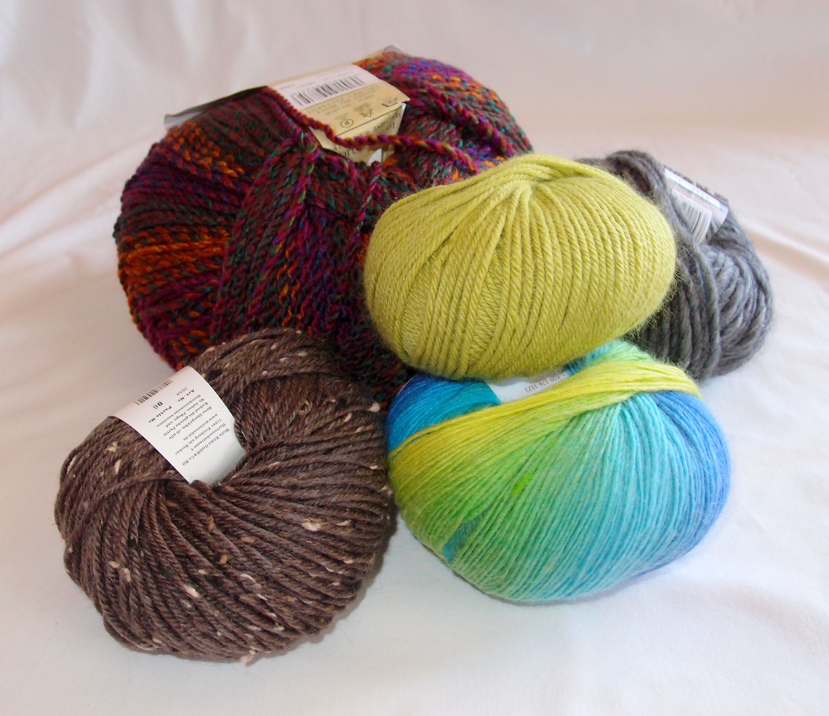 Center-pull balls of yarn in various fibers and weights.